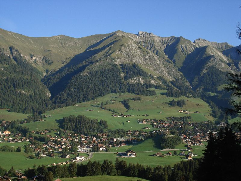 View of Chateau d'Oex - Dhaesler 12:48, 1 September 2006 (UTC)D HaeslerDhaesler 12:48, 1 September 2006 (UTC)